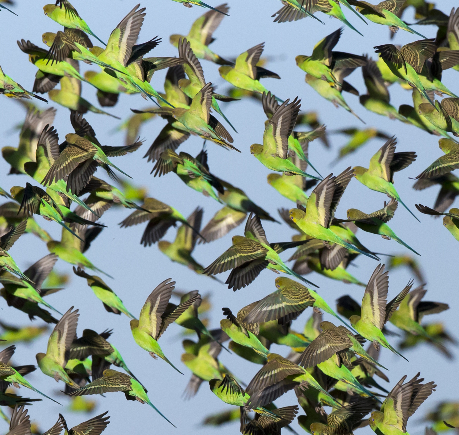 Budgerigar Melopsittacus undulatus flock, Karratha, Pilbara region, Western Australia